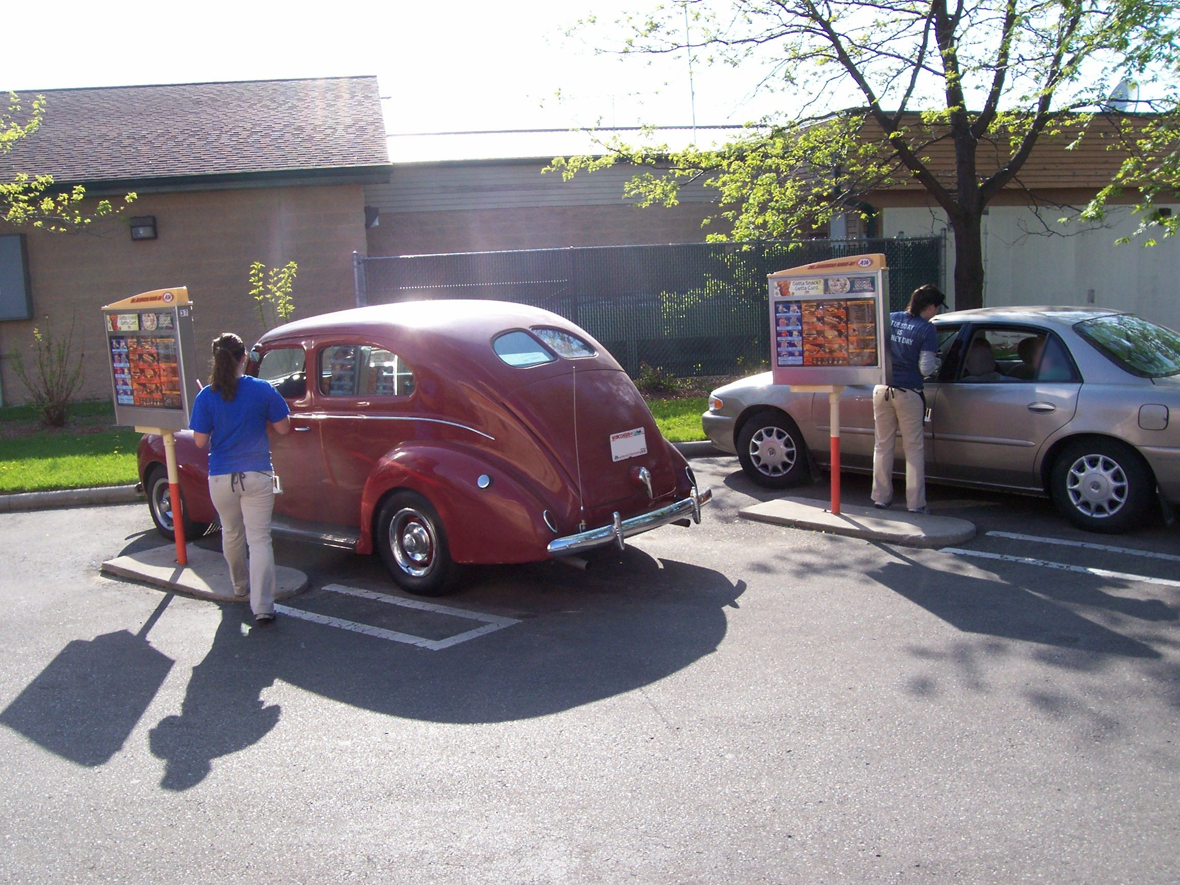 Carhops serving 2 cars at the A&W Restaurants location in Fond du Lac, Wisconsin.